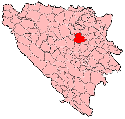 Location of Zavidovići municipality in Bosnia and Herzegovina.